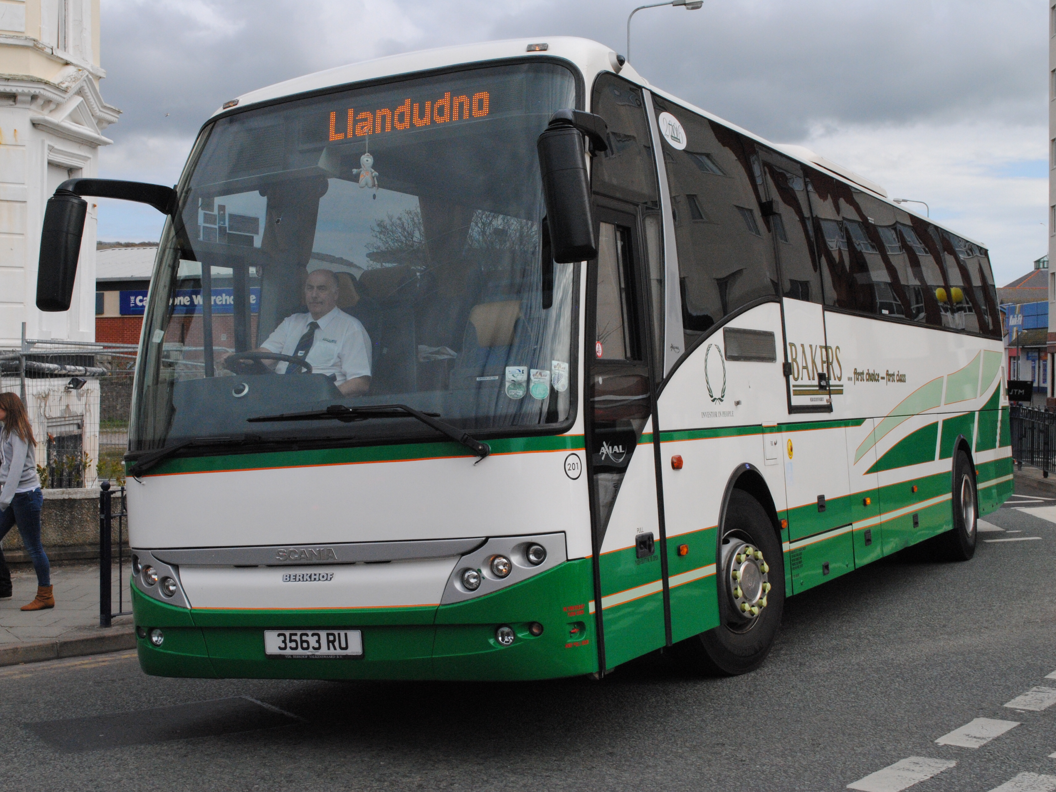 Scania K114EB4 VDL Berkhof Axial 50